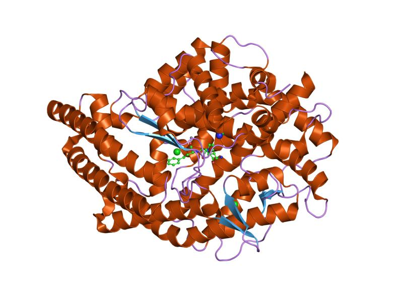 Cartoon representation of the molecular structure of protein registered with 1o86 code.